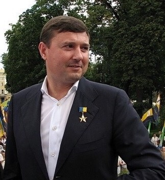 Bondarchuk